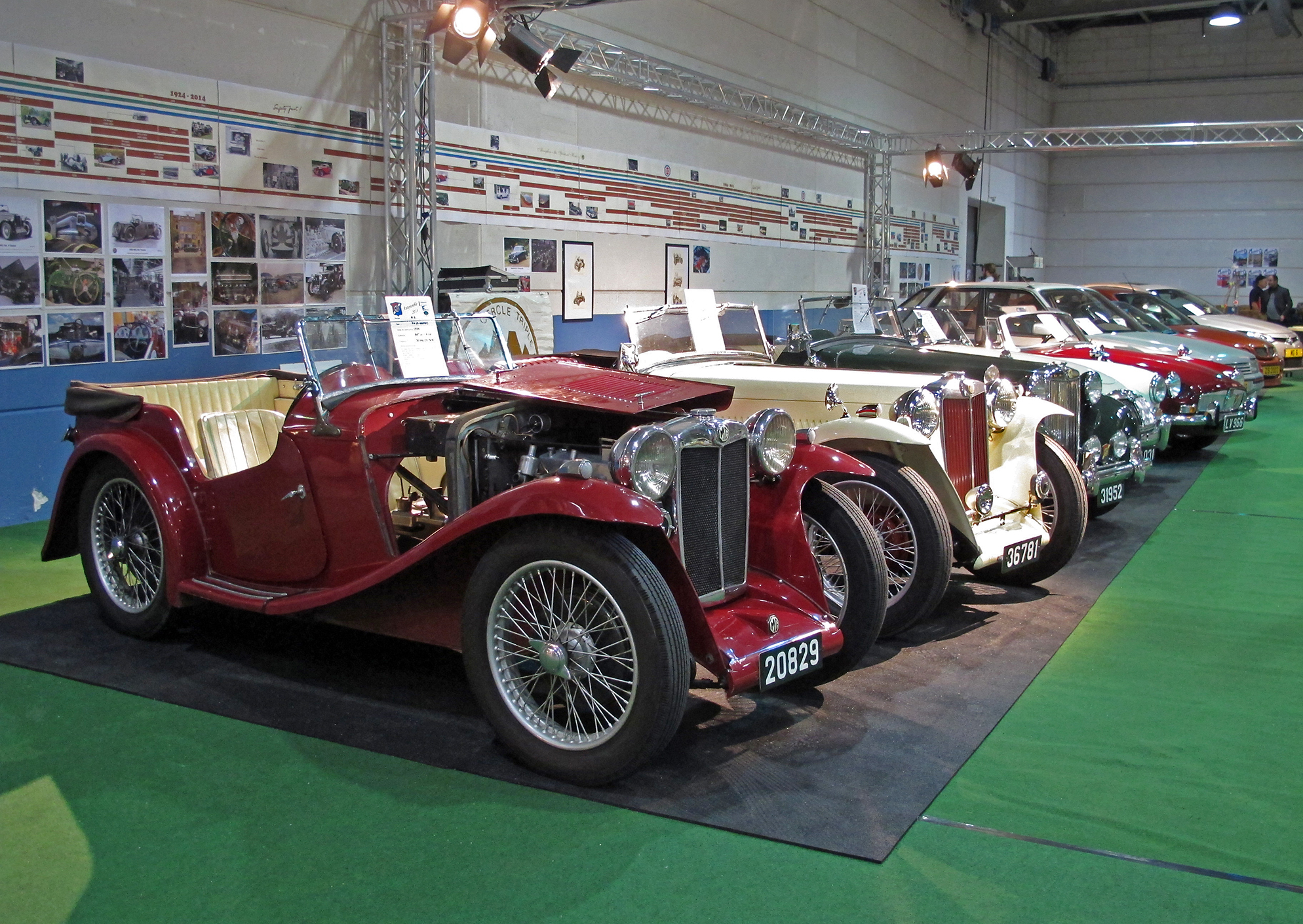 A part of the committee of the MG Car Club Luxembourg on their booth at the Autojumble 2014